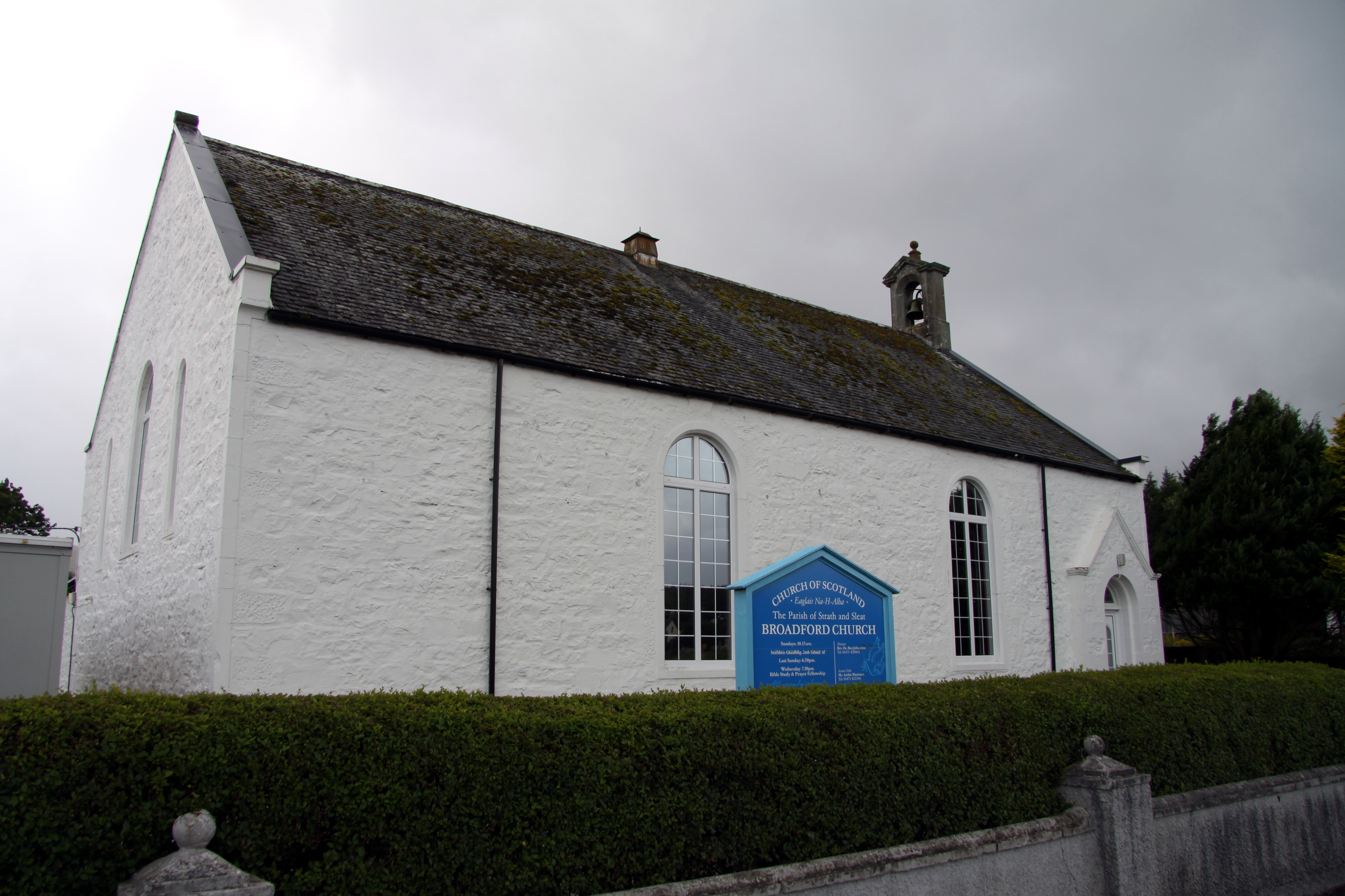 Broadford, Isle of Skye photographed during Skye trail, Isles of Skye, Inner Hebrids, Scotland - Google Maps - Google Earth